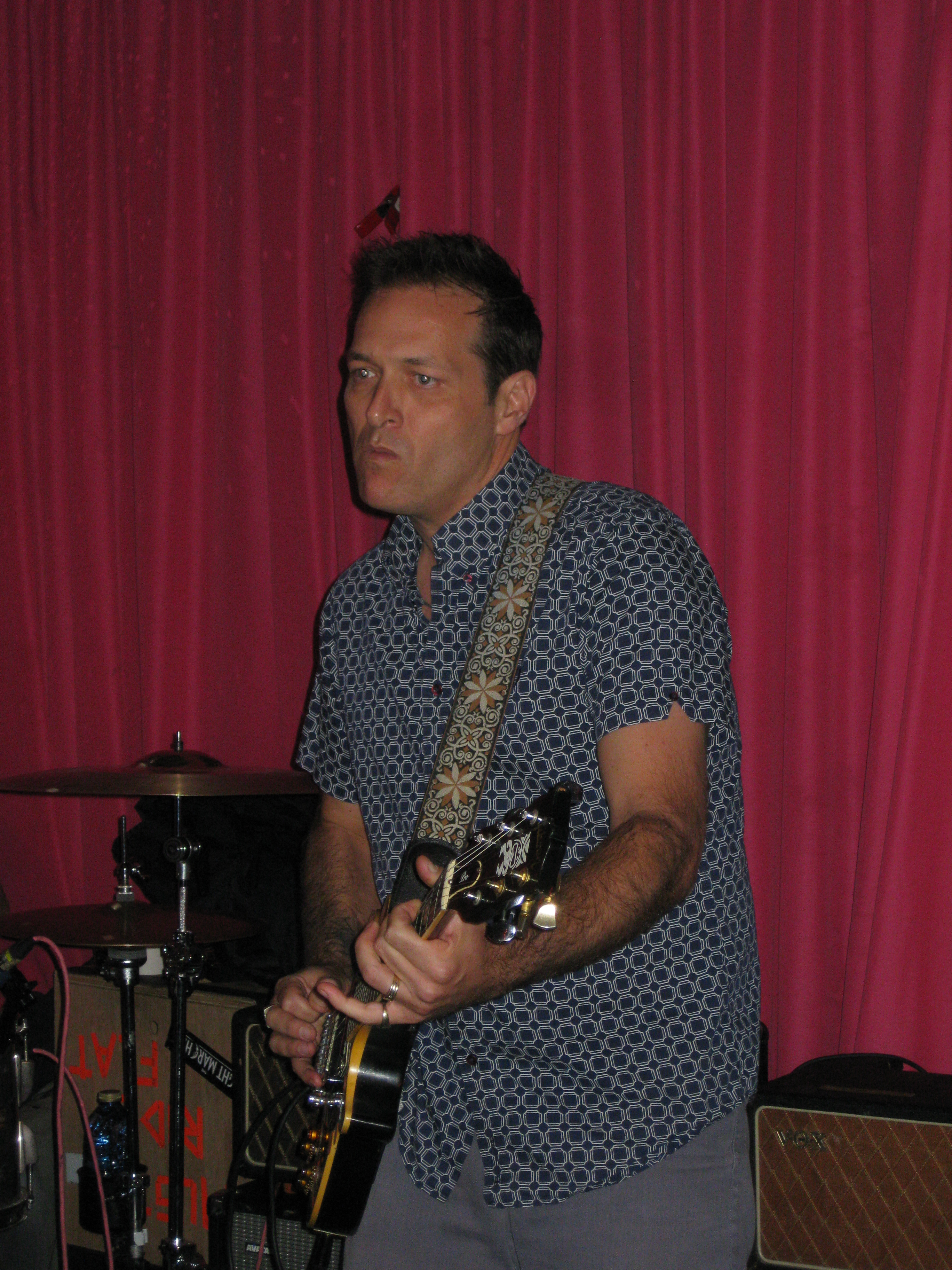 Guitarist John Reis of Hot Snakes performing November 4, 2011 at Bar Pink in San Diego, California.